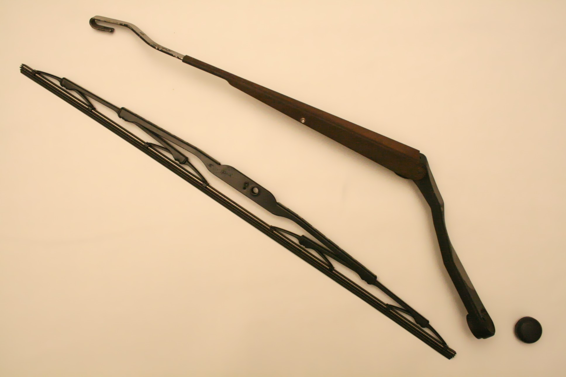 Windshield wiper assembly removed from a 1990 Geo Storm Gsi.